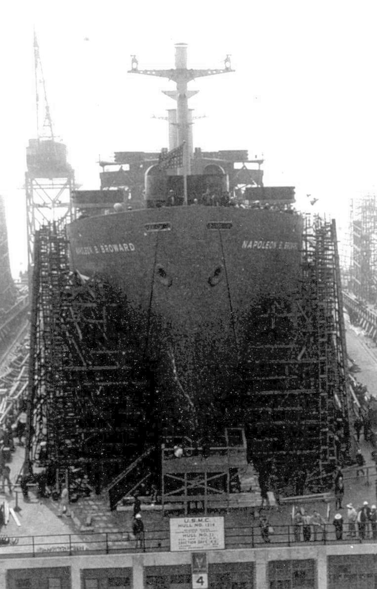 SS Napoleon B. Broward (MCE hull 1214) launching, 30 September 1943 at St. Johns River Shipbuilding Corp., Jacksonville, FL.